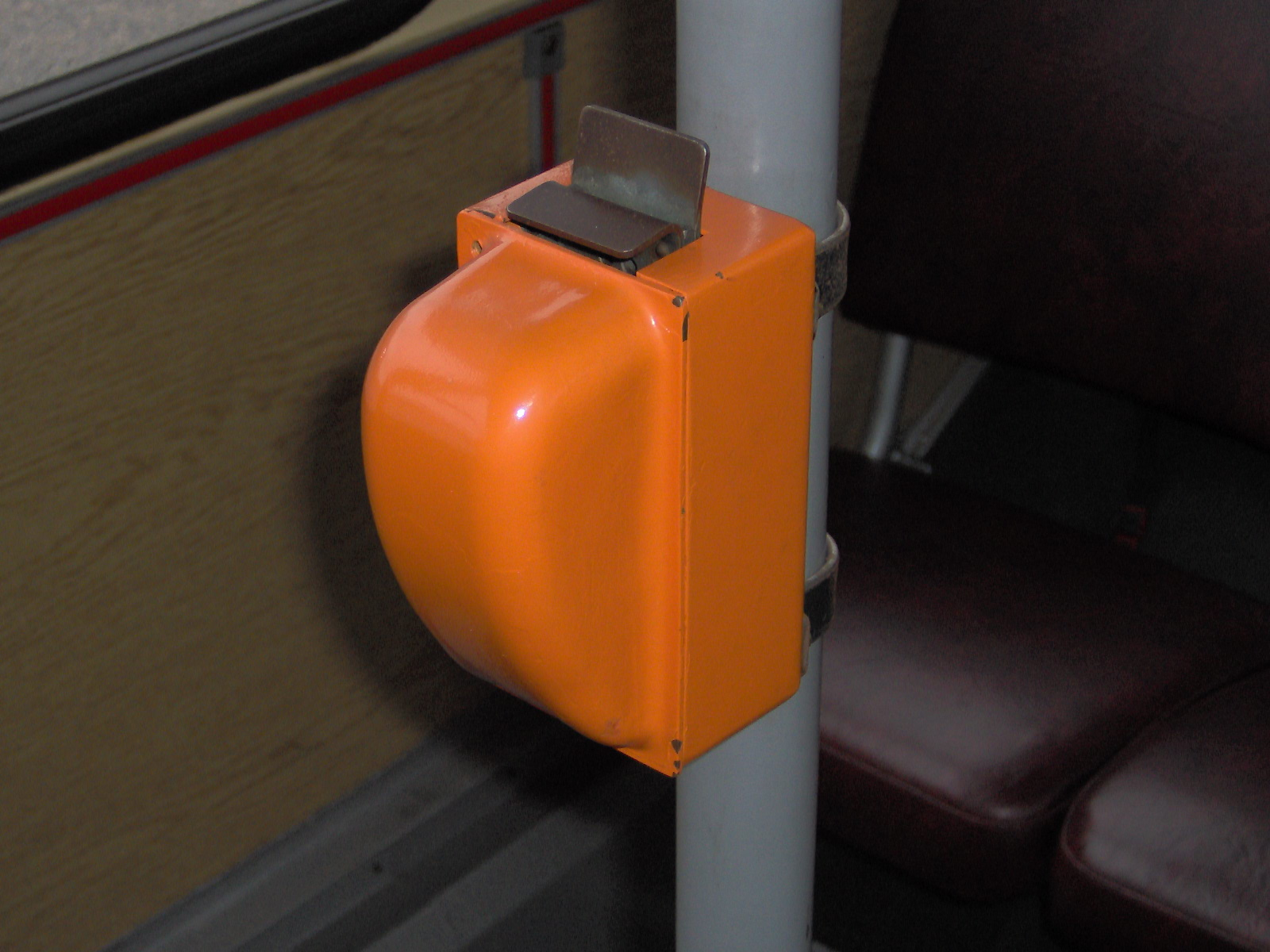 Ticket marker in Škoda 14Tr museum trolleybus in Brno